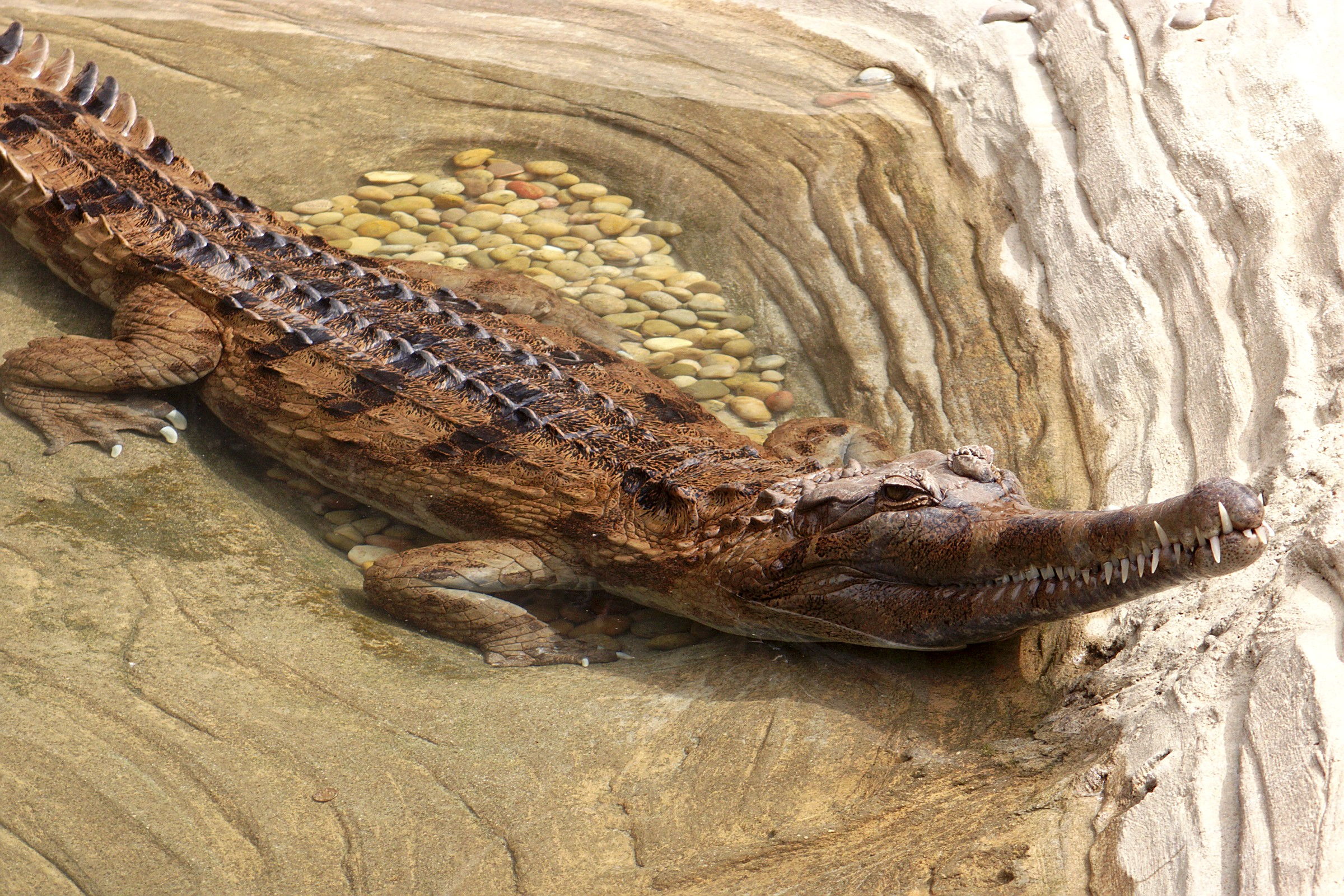 Tomistoma schlegelii commonly known as false gharial at the Los Angeles Zoo.